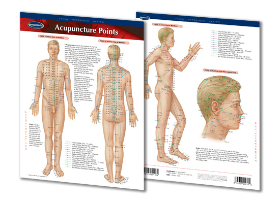 An image of the quick reference chart "Accupuncture points" by Permacharts.